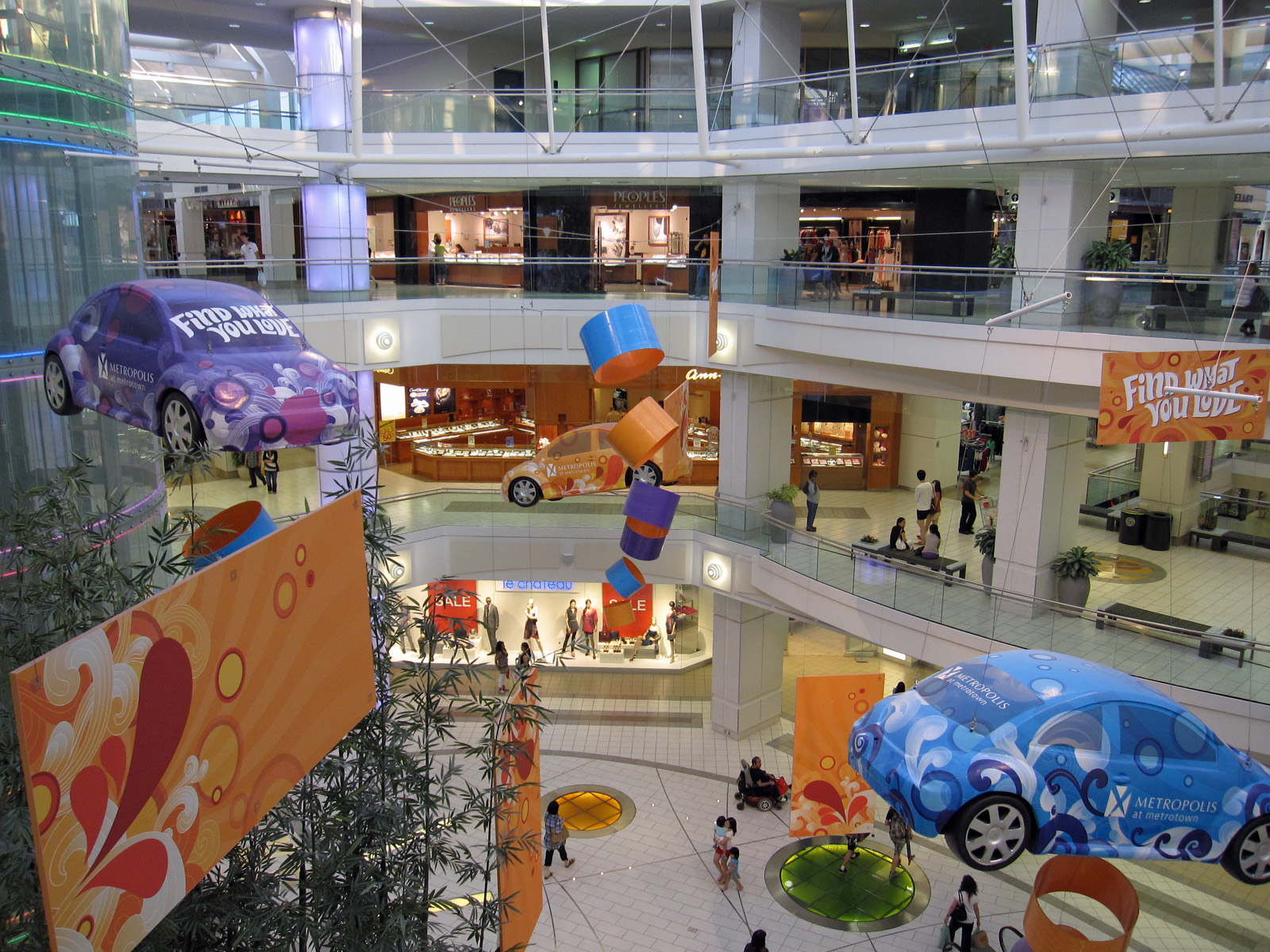 Located in suburban Burnaby amongst luxury highrise apartments and upper-income Asian immigrant enclaves, Metropolis at Metrotown is Canada's second largest shopping center, with 470 stores. Back in 2006, which was my previous Vancouver visit, I had stayed in this area and made this shopping center my nightly playground. This time, in 2012, between a Victoria day trip and a downtown Vancouver comedy gig at night, I am here for quick window shopping and a dinner; this was, and still is, one of my favorite megamalls anywhere. Love the VW Beetle-shaped decorations.